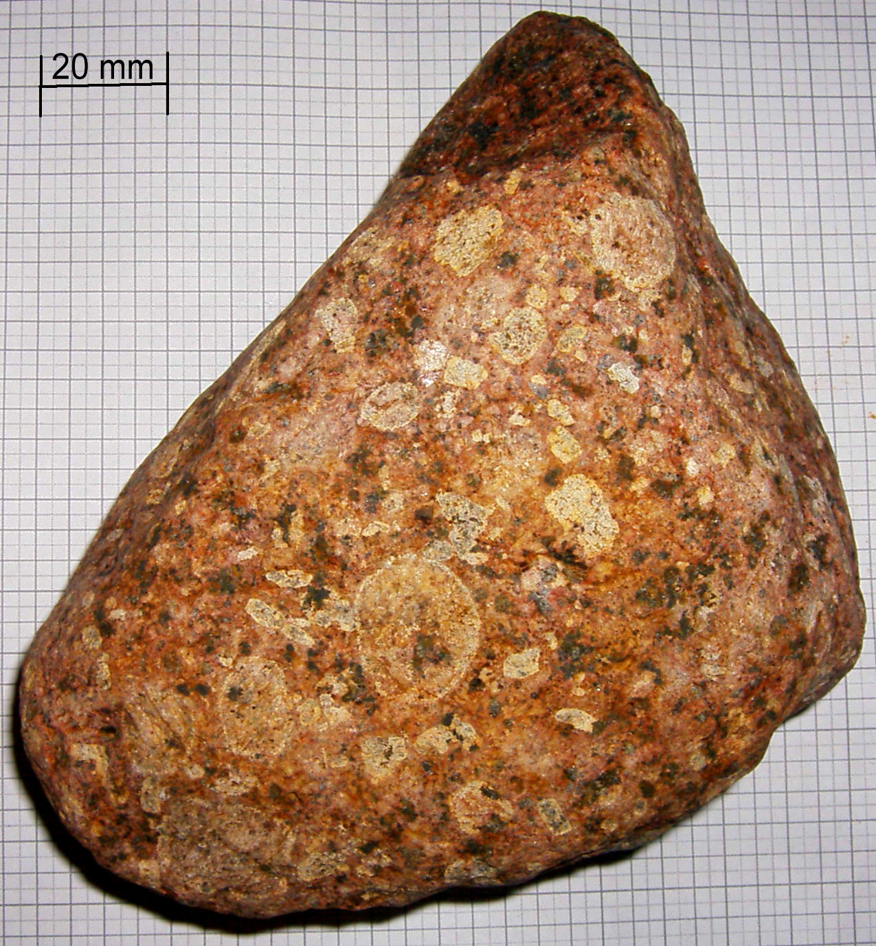 Rapakivi from a moraine in Northern Germany